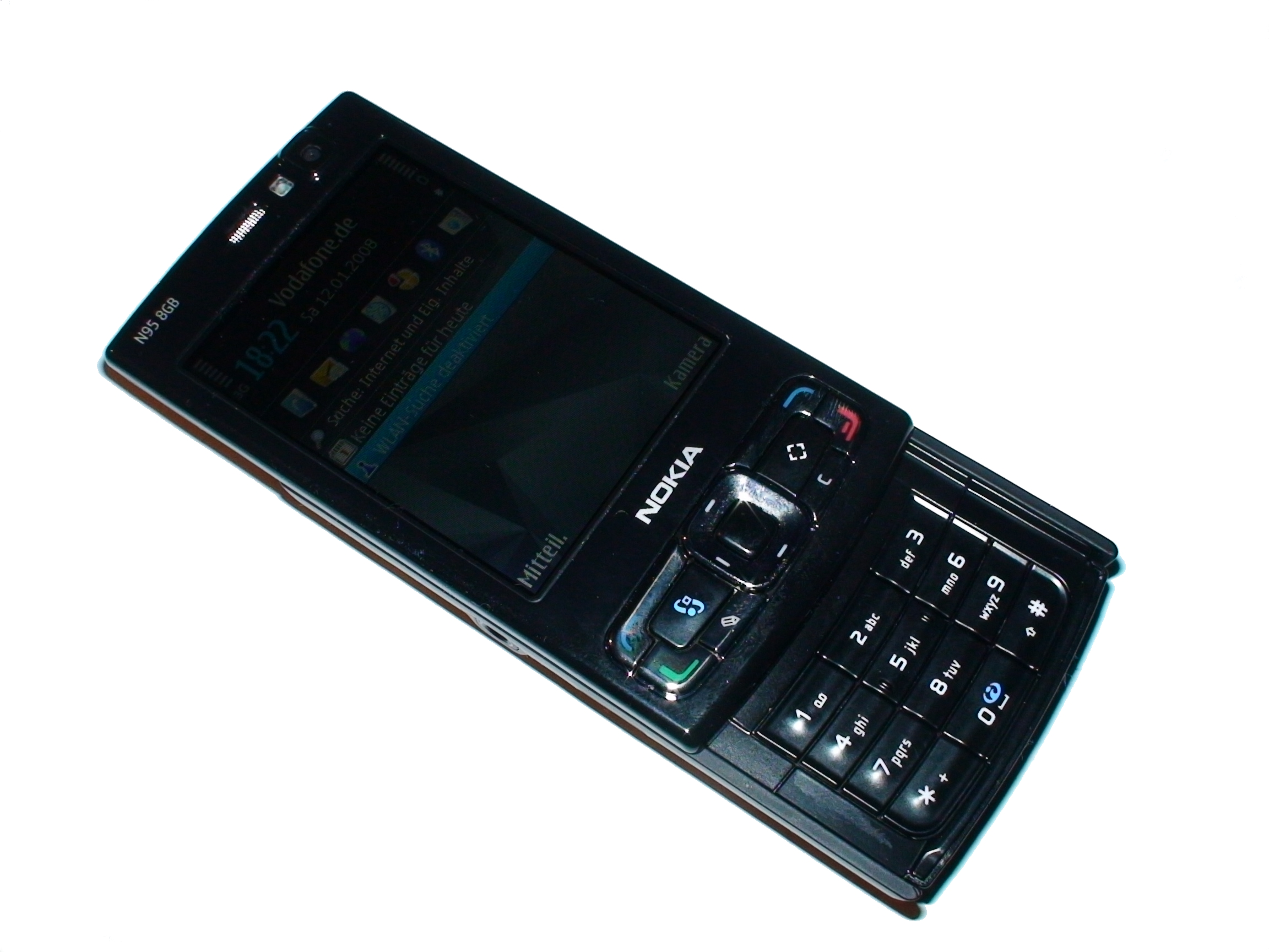 Nokia N95 8GB photo.